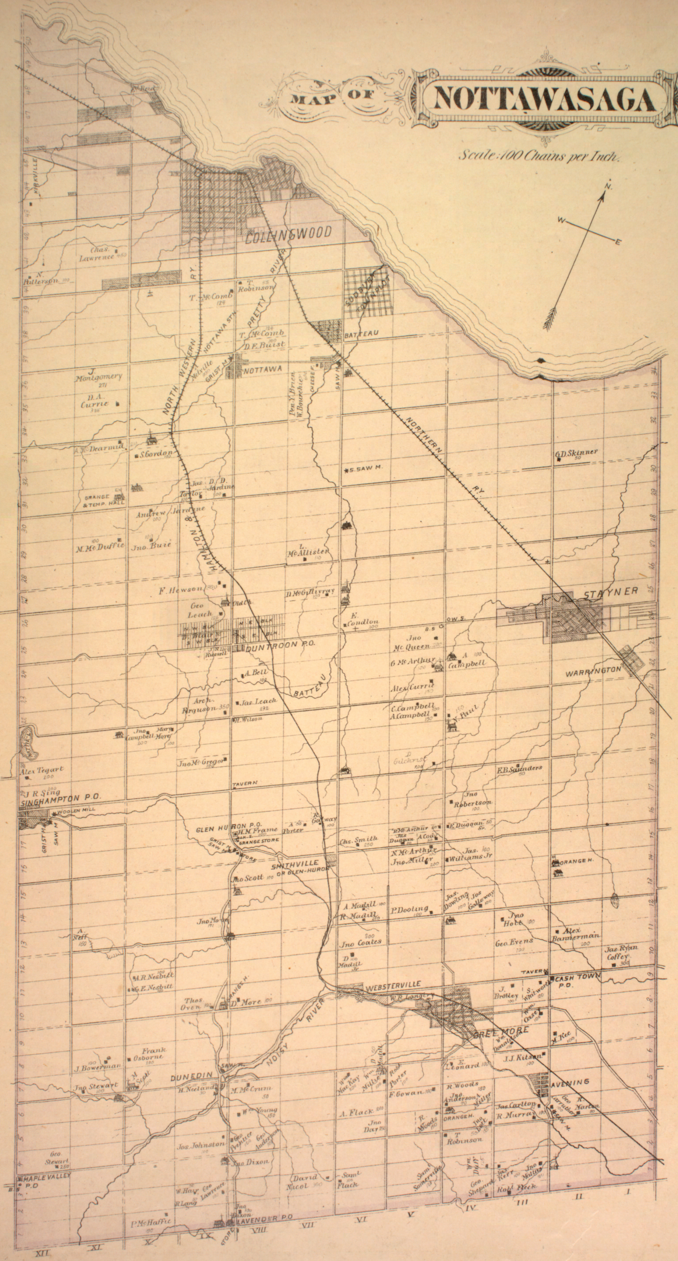 Nottawasaga Township, Simcoe County, Ontario, 1880.